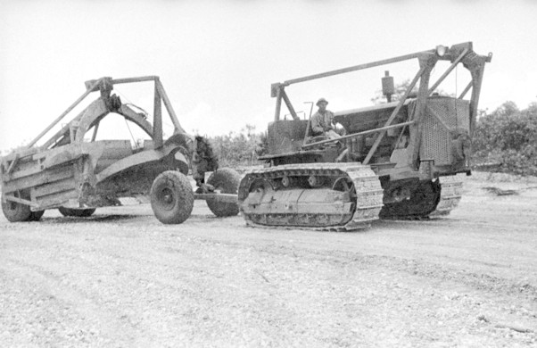 Kiriwina, Trobriand Islands, Papua. Airfield construction equipment of RAAF No. 6 Mobile Works Squadron (later No. 6 Airfield Construction Squadron) in operation on the airfield.